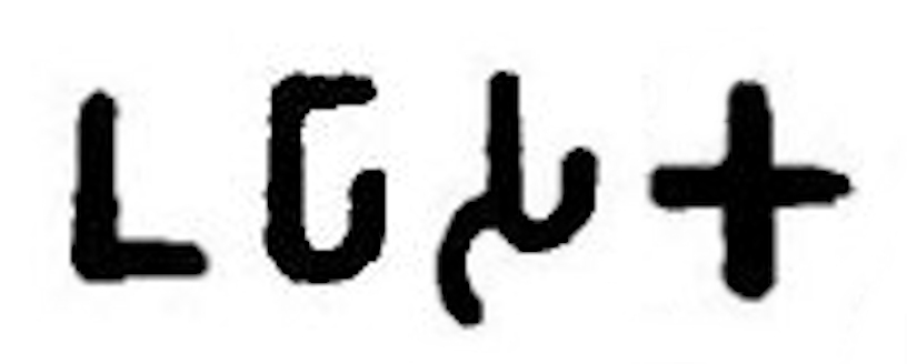 Upasaka ("Buddhist lay follower") in Prakrit. Ashokan inscription at Sasaram. "Upasake" in the original inscription (here shown) is the accusative form of the noun "Upasaka".